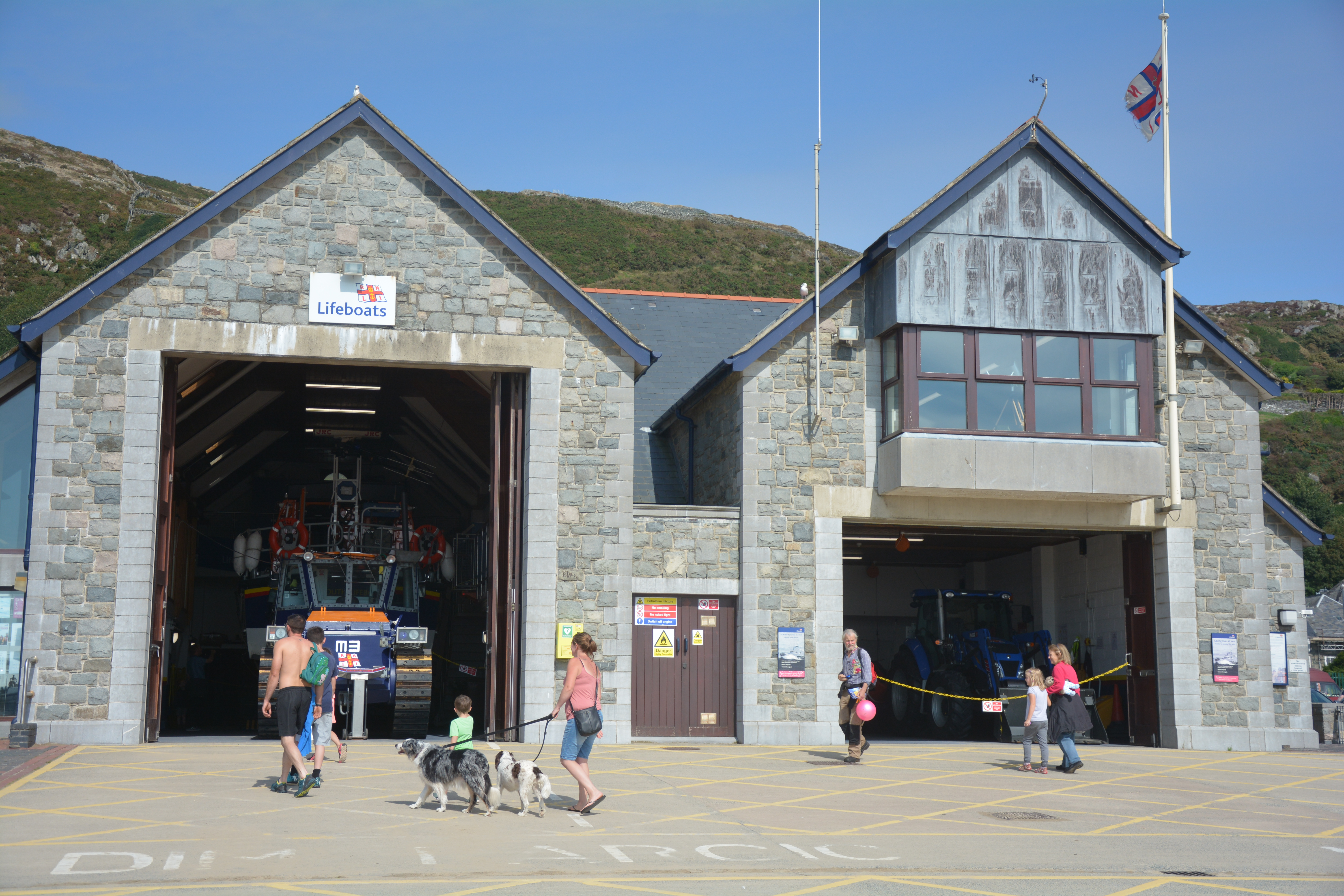 Barmouth Lifeboat Station